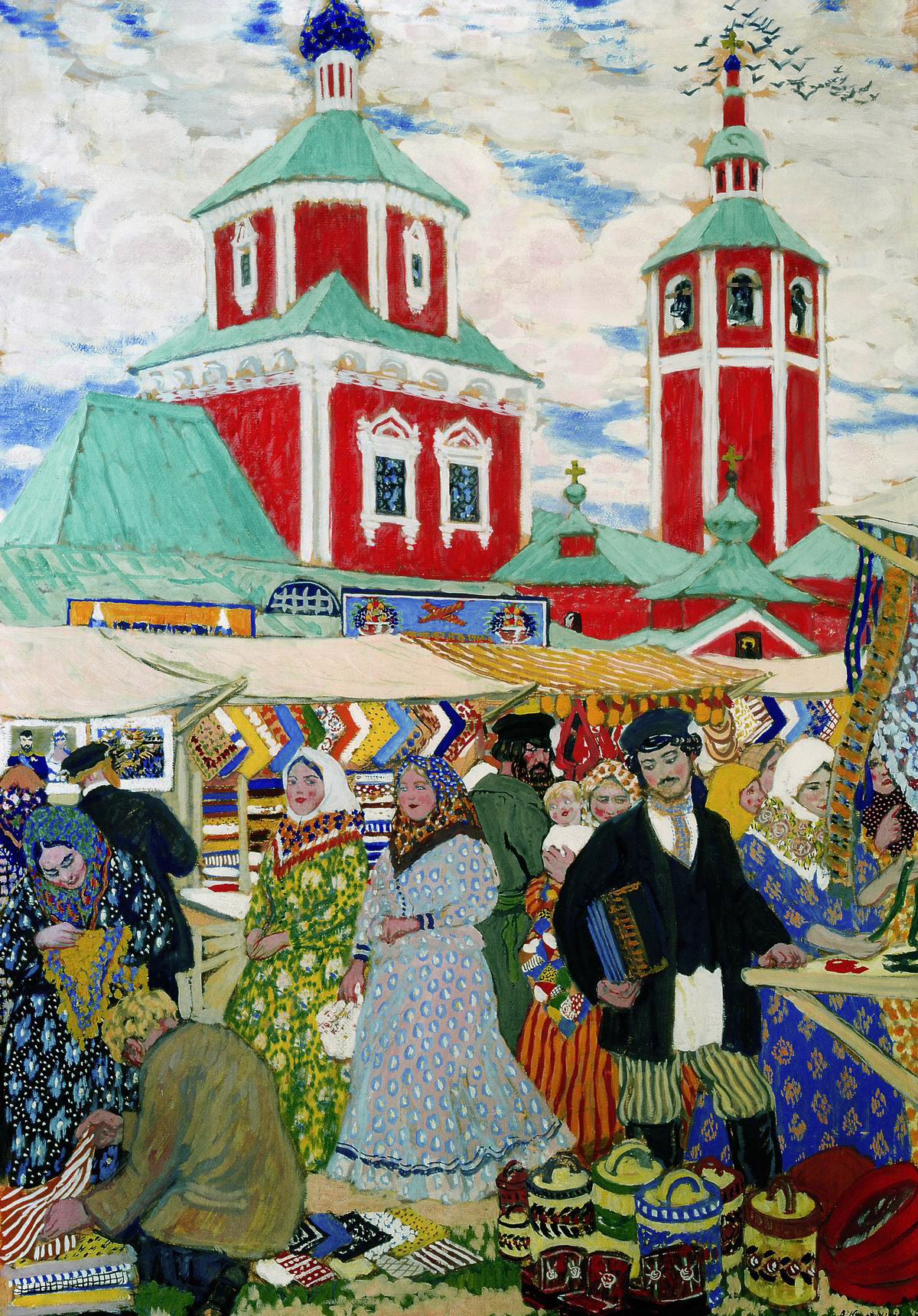 Boris Kustodiyev. Fair. 1910. Tempera on cardboard. The A. N. Radishchev Museum of Arts, Saratov, Russia.